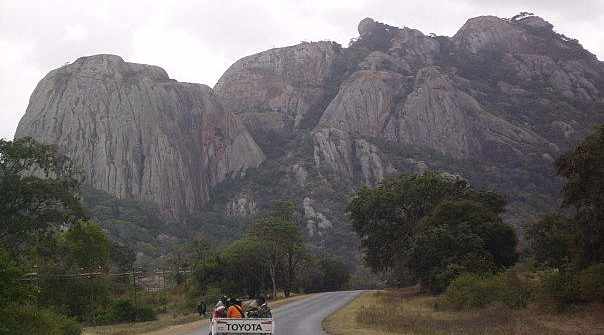 Scene along the high Beitbrdge-Masvingo